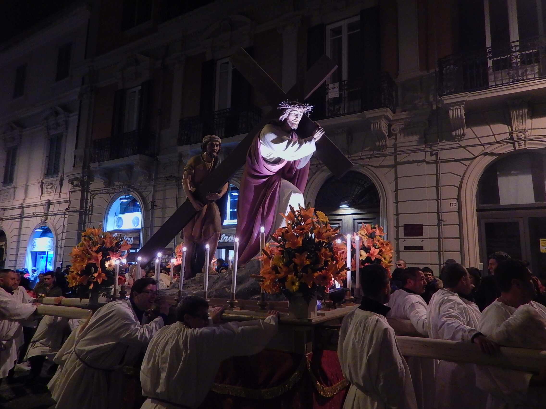 The Procession of the "Barette" in Messina taken every Easter friday since XV Century, Sicily